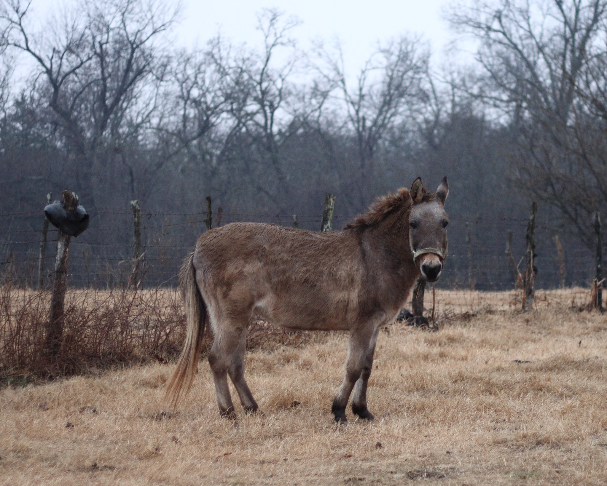 Often mistaken for a mule this is a Hinny, (offspring of a female donkey and a male horse). This old hinny resides on a homestead in southeastern Oklahoma.